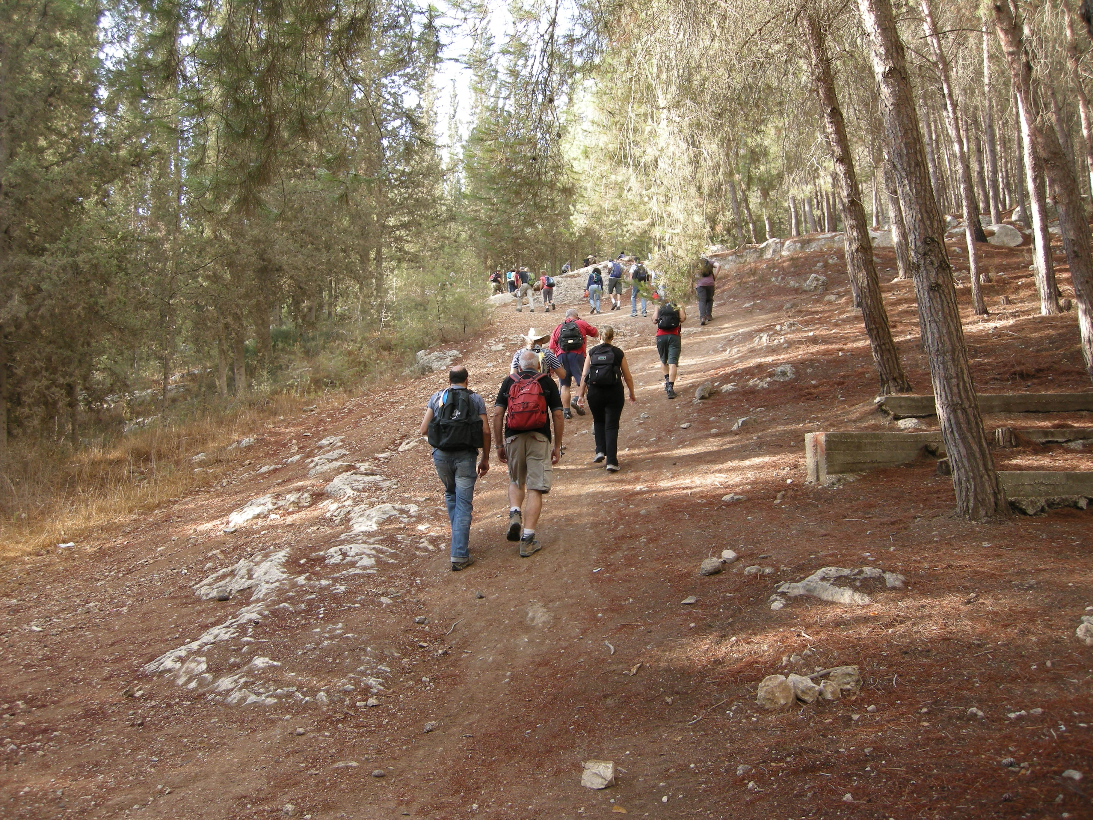 Israel National Trail - Modiin to Neve Shalom